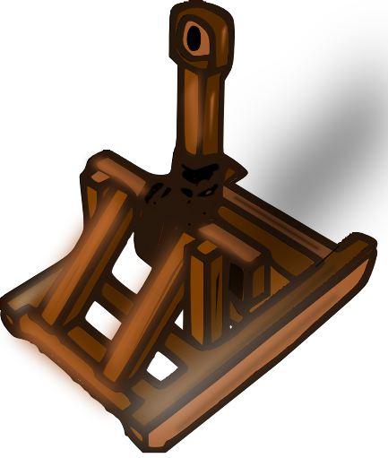 Picture of a Mangonel.